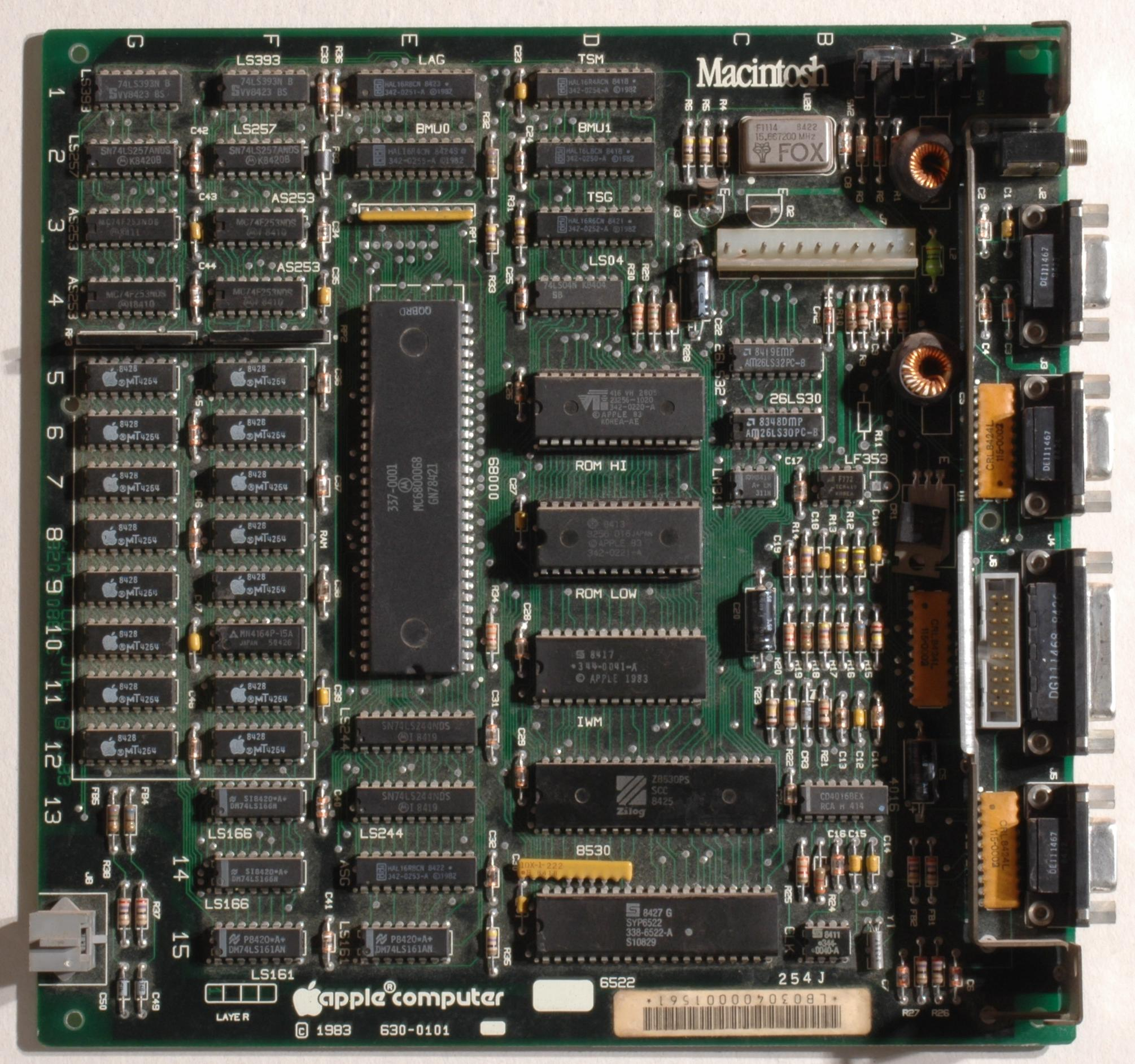 Motherboard of the original Macintosh computer.